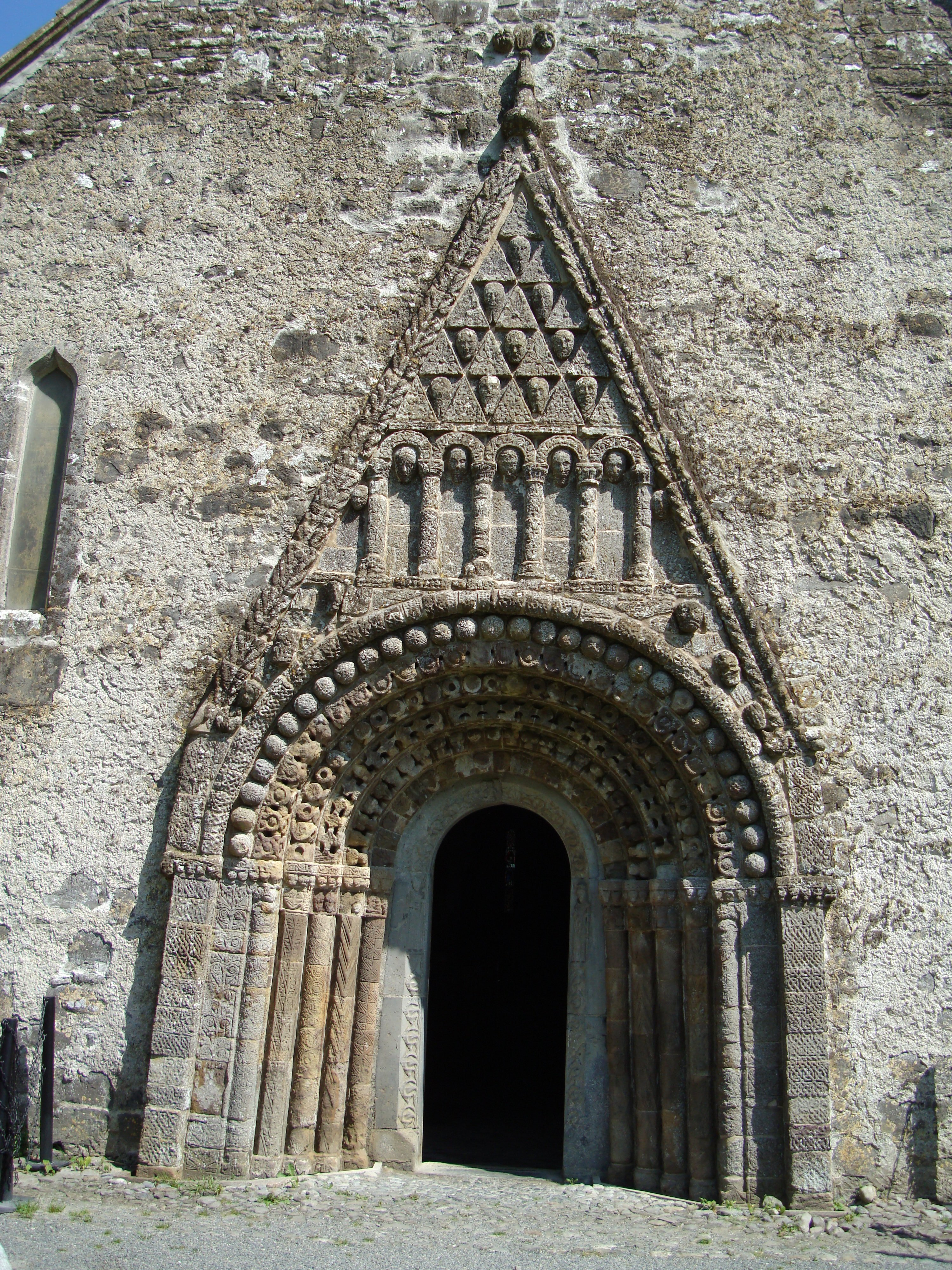 Photograph of St Brendan's Cathedral, Clonfert, Co. Galway - detail of doorway